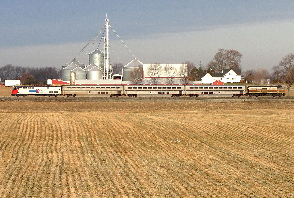 Amtrak 156 one of the Amtrak heritage units makes it's rounds on the Pere Marquette as it passes a farm south of Holland... hard to believe but in a few short hours it will be on it's way to California on the Southwest Chief.